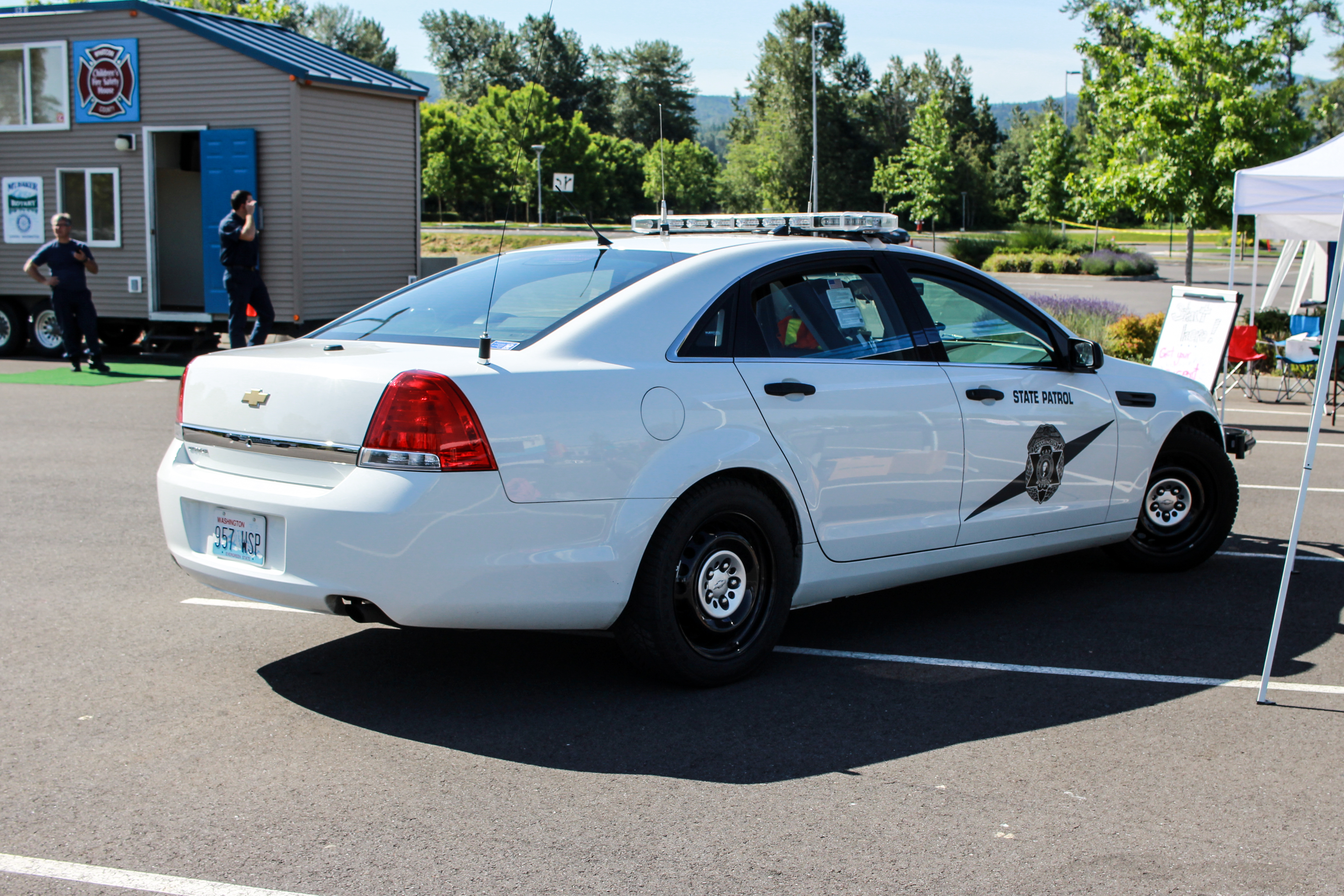 Washington State Patrol Chevy Caprice (957)